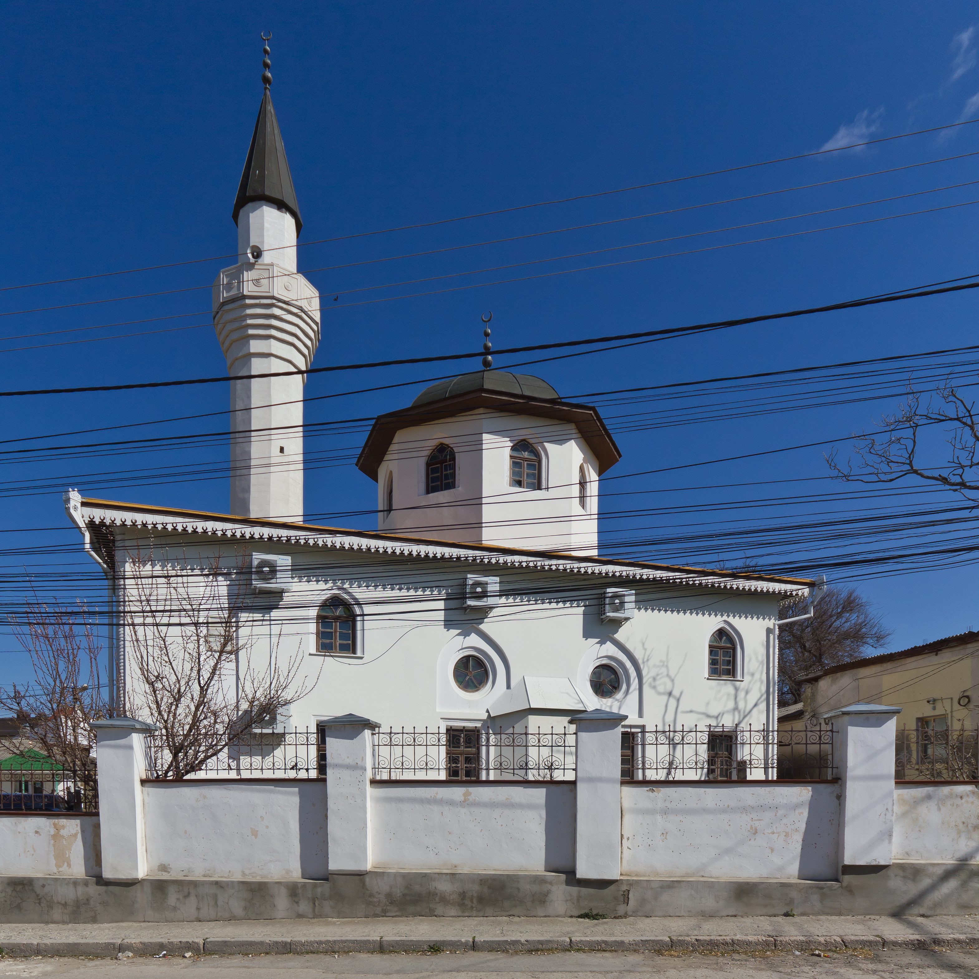 The Kebir-Jami Mosque in Simferopol, Crimean Peninsula.